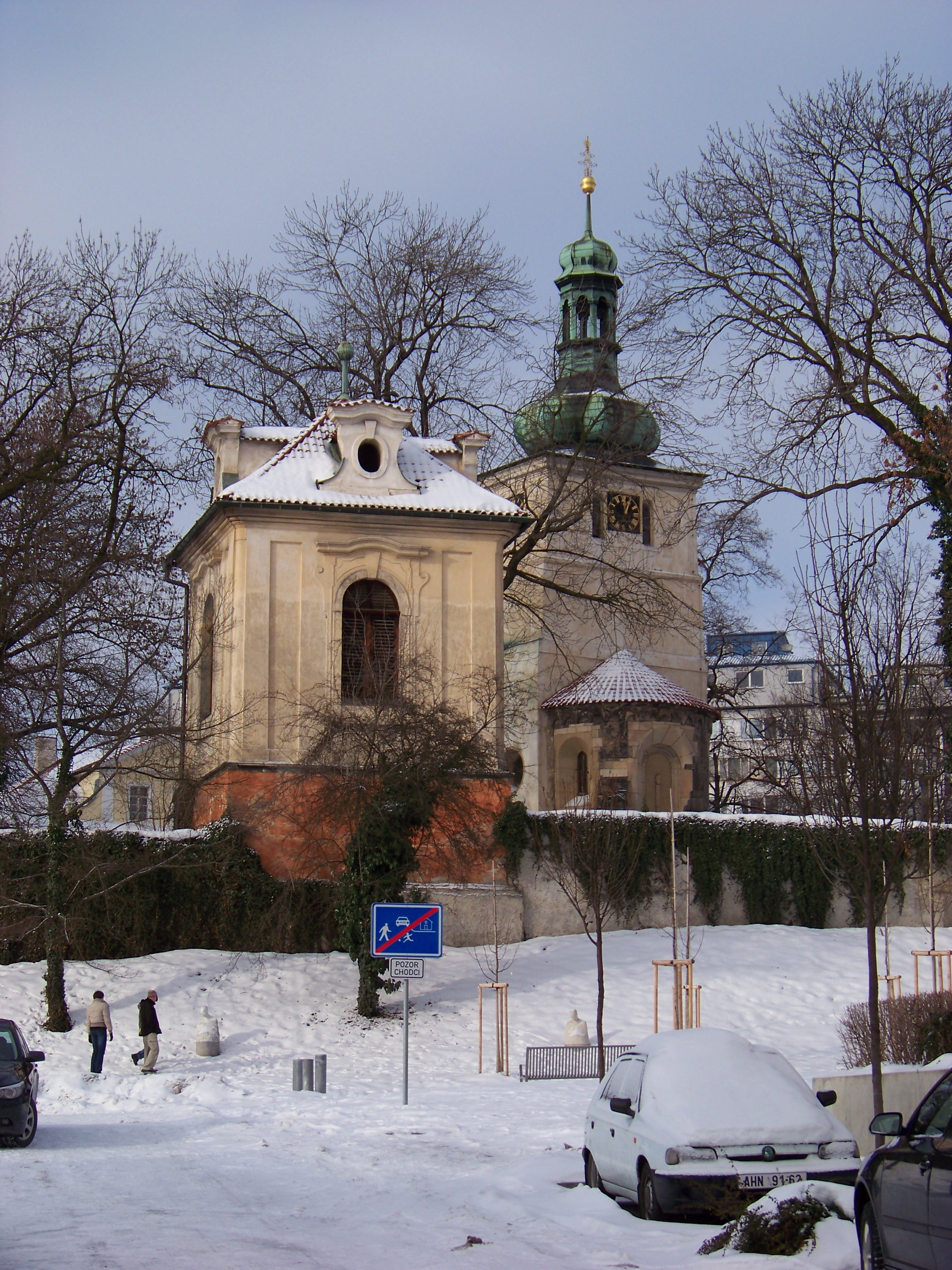 Prague-Prosek, the Czech Republic. Saint Wenceslaus church with a bell tower. - Google Maps - Google Earth